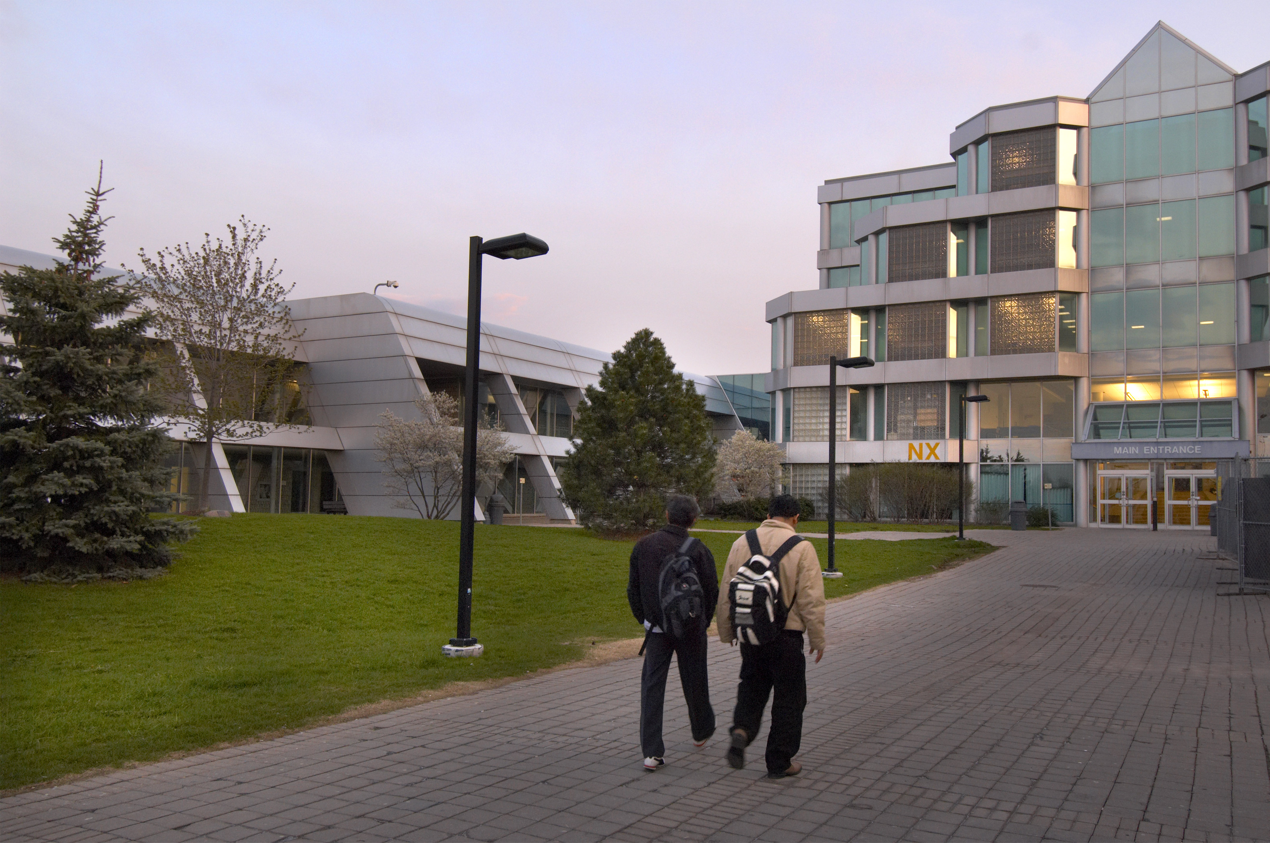 Humber College North Campus main entrance